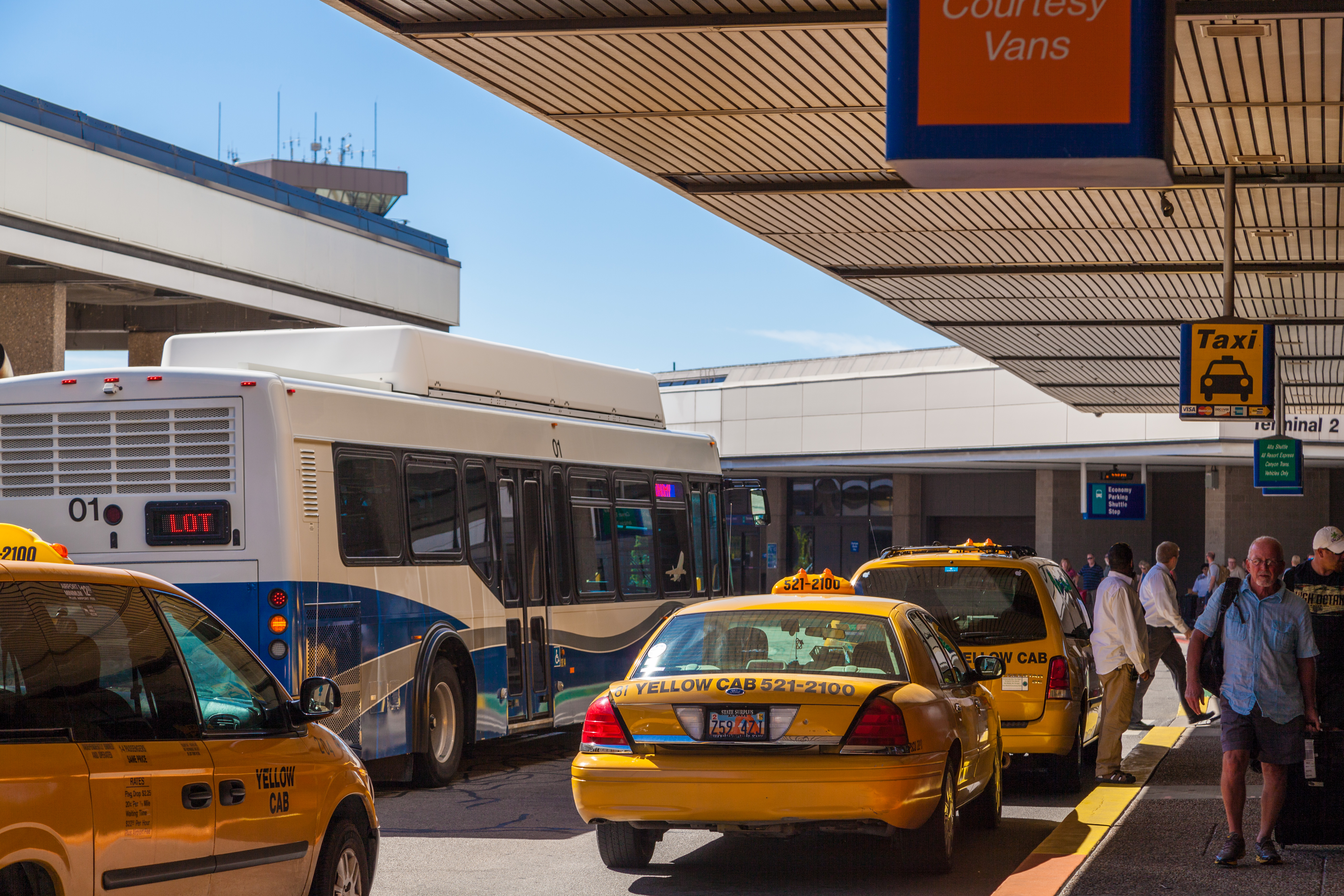 Salt Lake International Airport unloading zone Salt Lake City, Utah, USA